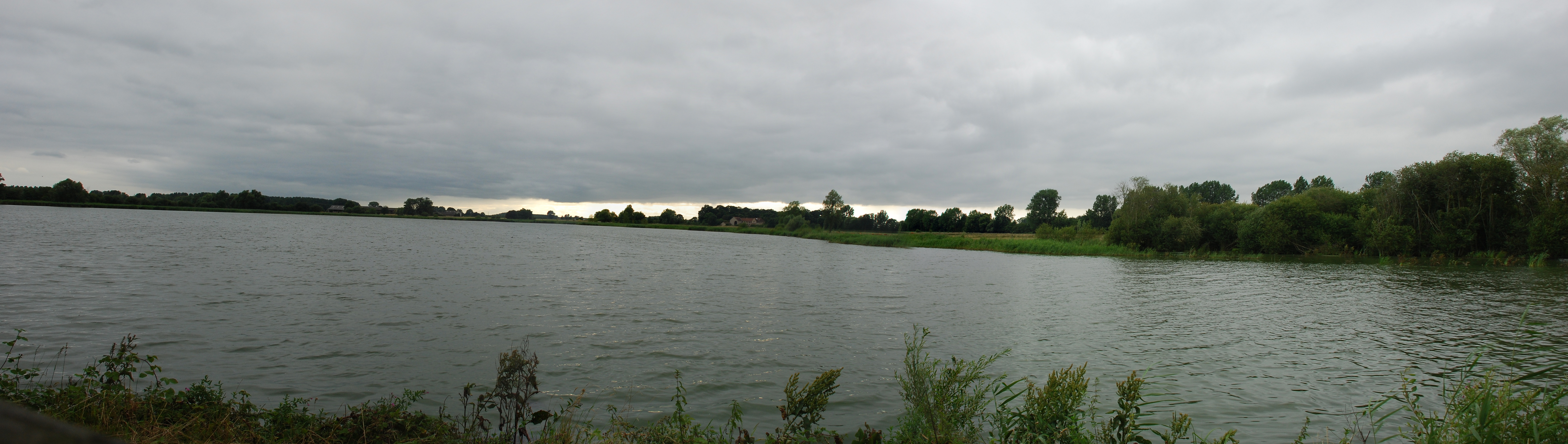 Panorama image taken from the middle of the lake